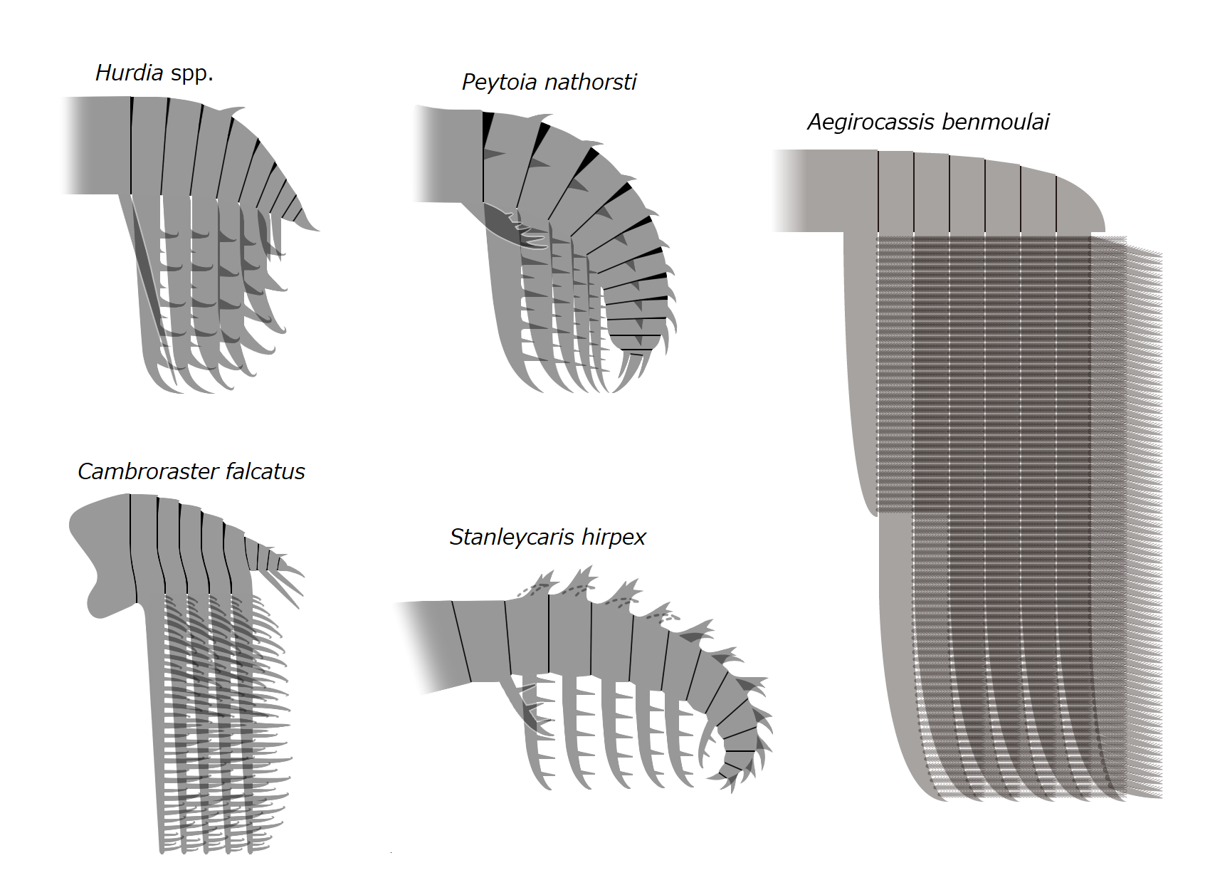 Frontal appendages of the radiodont family Hurdiidae. Light grey indicating regions with incompleteness and/or uncertainties. Size not to scale.